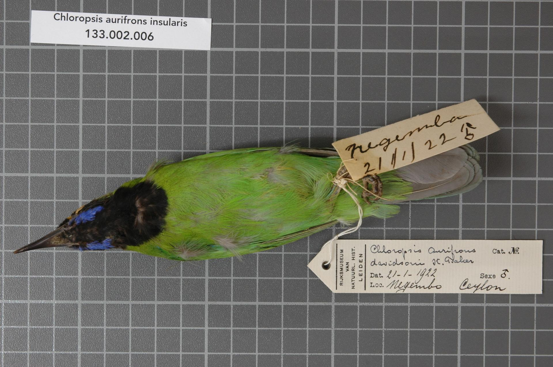 Chloropsis aurifrons insularis (Whistler & Kinnear, 1932)